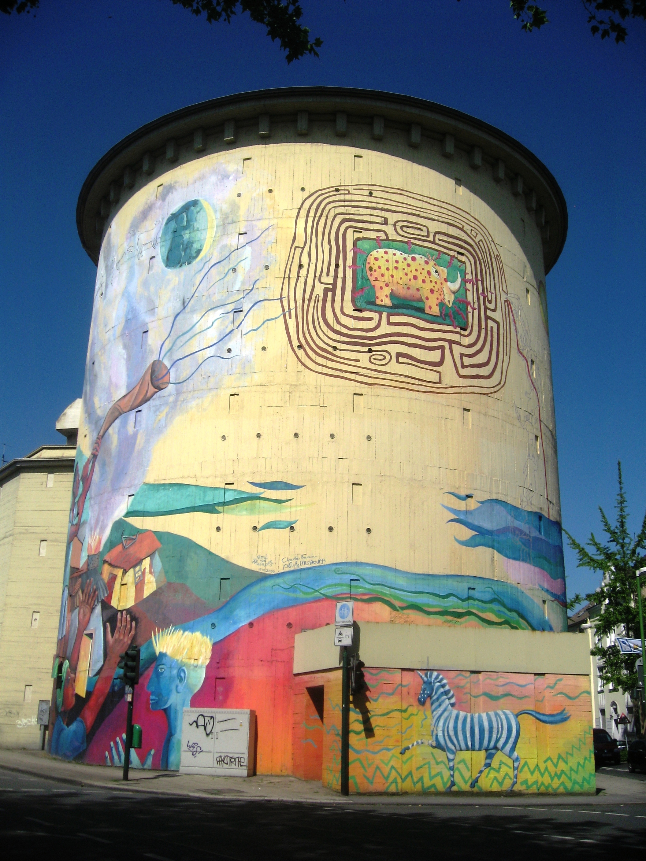 Mural at Anna-Bunker Essen-Altendorf, Germany